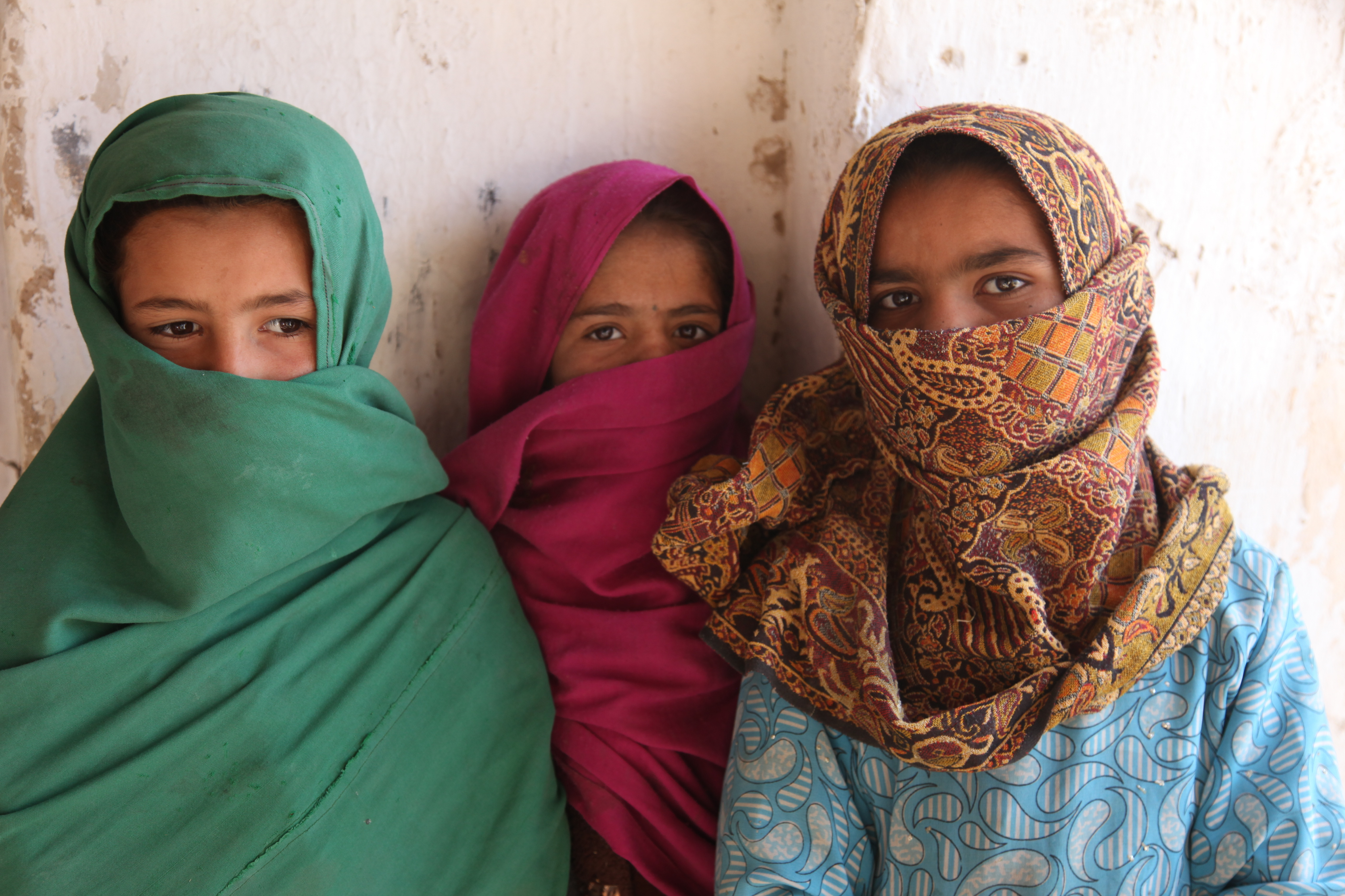 Afghan girls take a break from working to take a picture, Qalat, Afghanistan, Dec. 8, 2011. Female Engagement Team soldiers from HHC, 116th Infantry Battalion accompanied by the Female Afghan Police discuss security options as well as hand out school supply to the children on site.